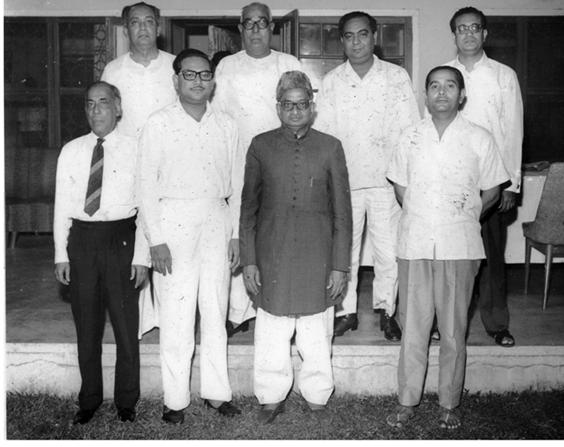 Group Photo, Federal Life Management, May 1969